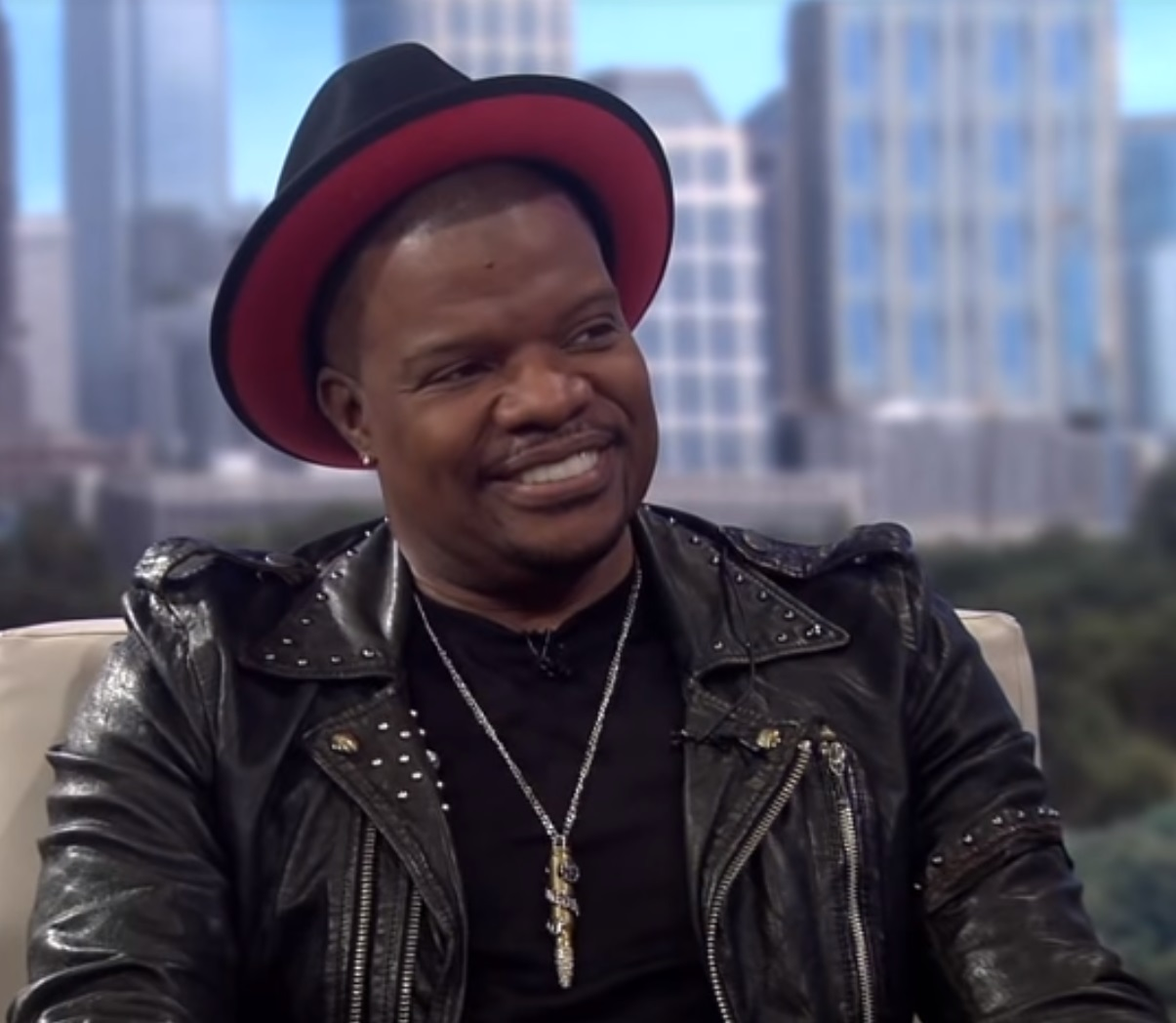 R&B vocalist Ricky Bell of band New Edition interviewed on Sister Circle Live